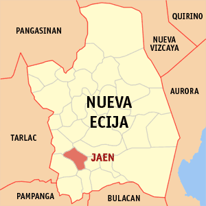 Map of Nueva Ecija showing the location of Jaen